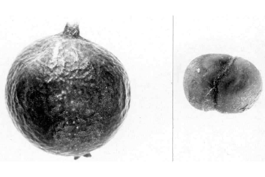 Garrya wrightii fruit & seed